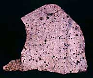 The Ibitira Eucrite. related to the Dawn Mission